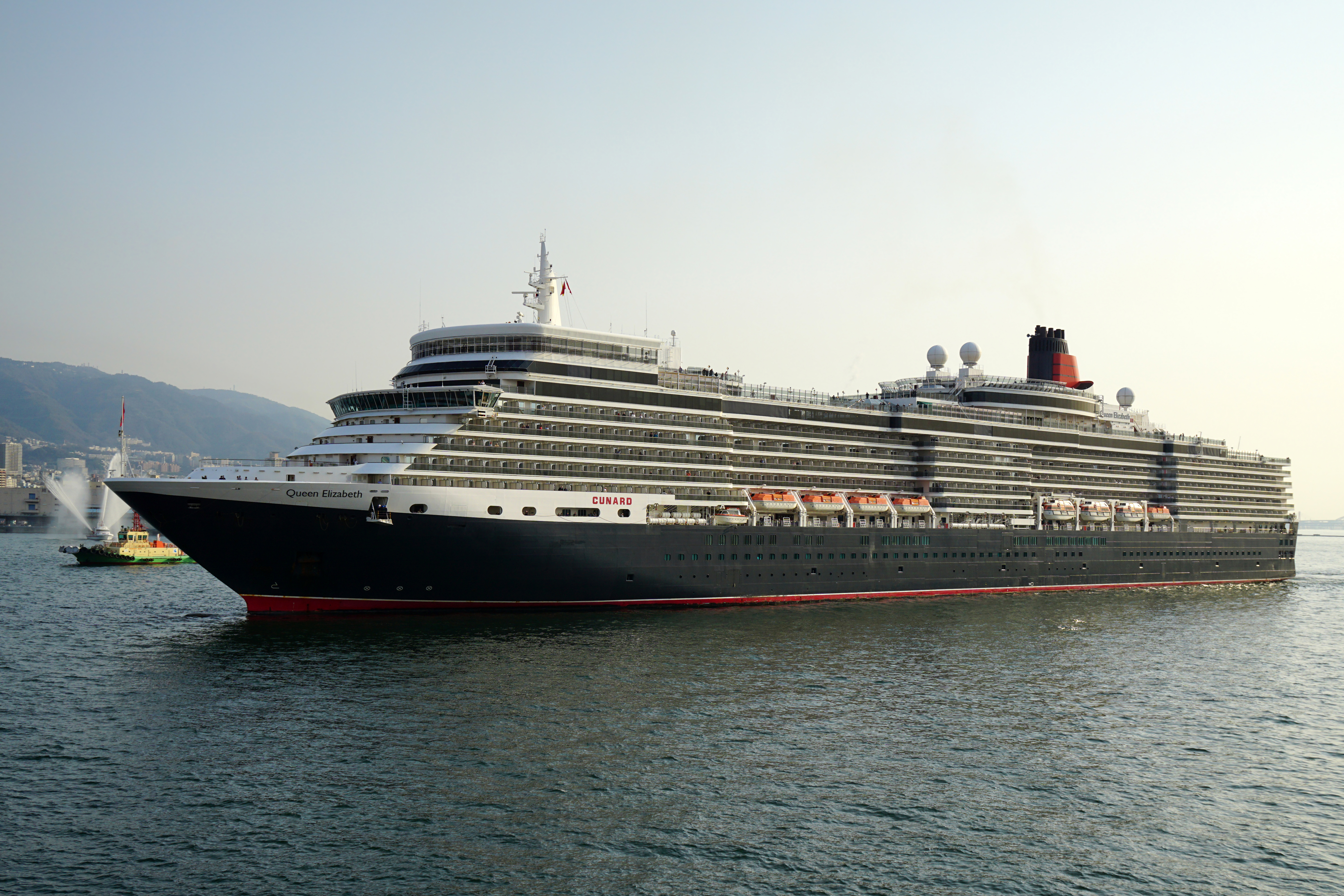 MS Queen Elizabeth in early morning at the Kobe Port Terminal of Kobe Port, Kobe Hyogo prefecture, Japan.